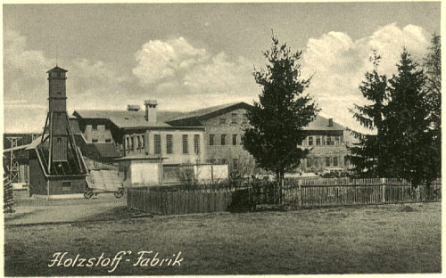 Olching Holzstoff-Fabrik, Old Postcard, approx 1920